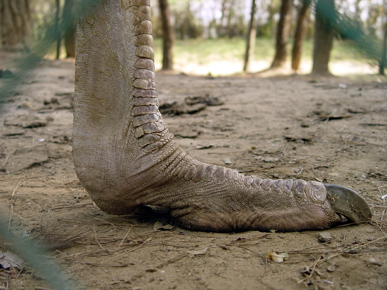 My own photo. Ostrich foot, zoo, South Korea.